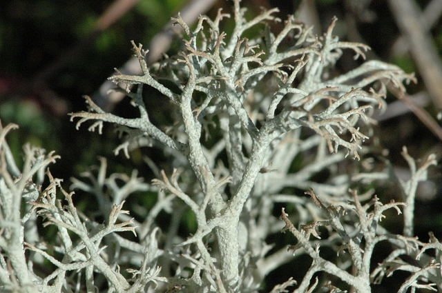 Picture taken in Commanster, Belgian High Ardennes . Species: Cladonia ciliata